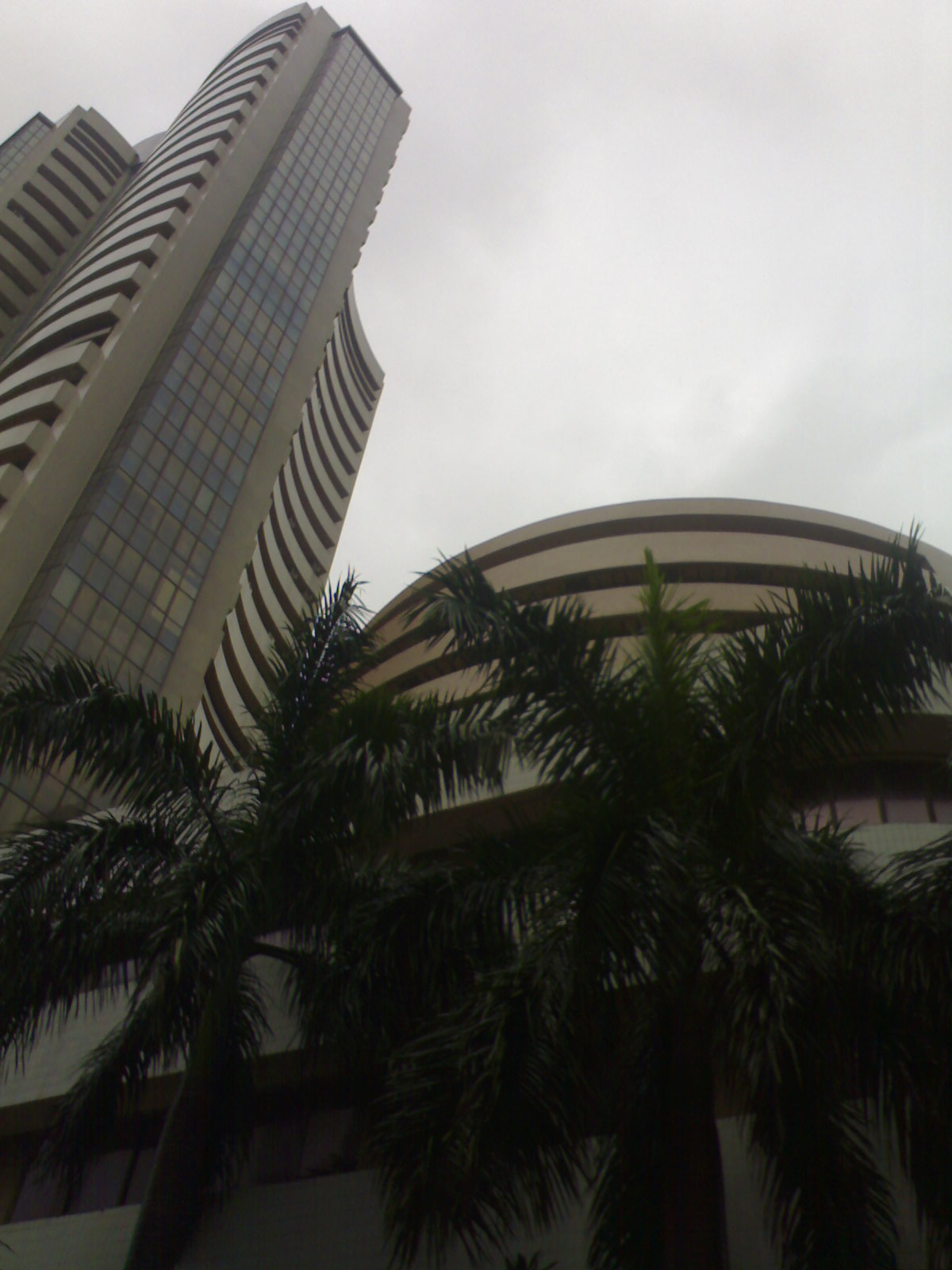 Phiroze Jeejeebhoy Towers ps: photo has been taken with a mobile cam.